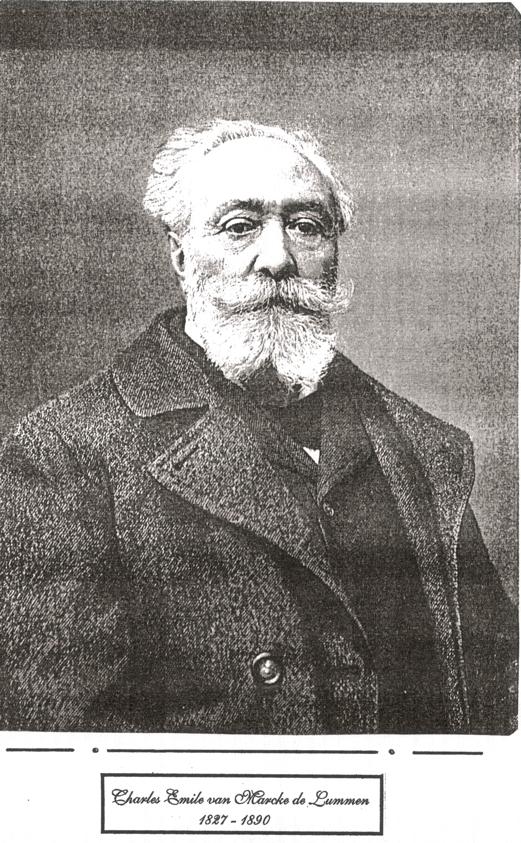 Picture of Emile van Marcke